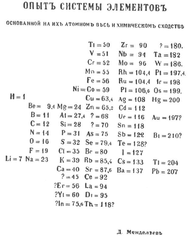 Mendeleev's рeriodic table (1869 year, the first edition)